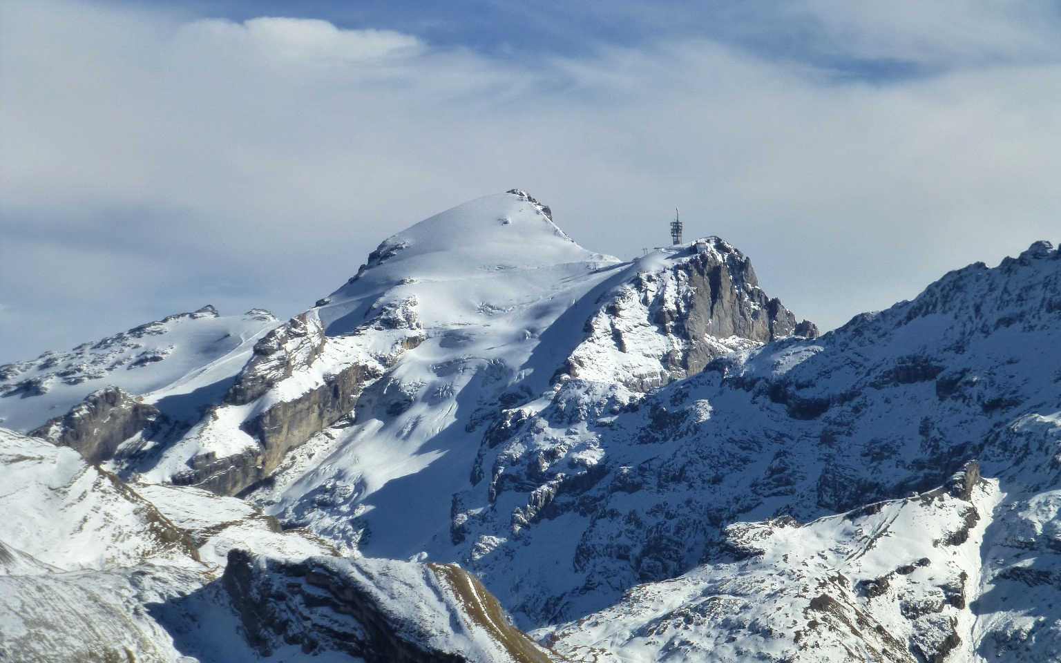 West side of Titlis